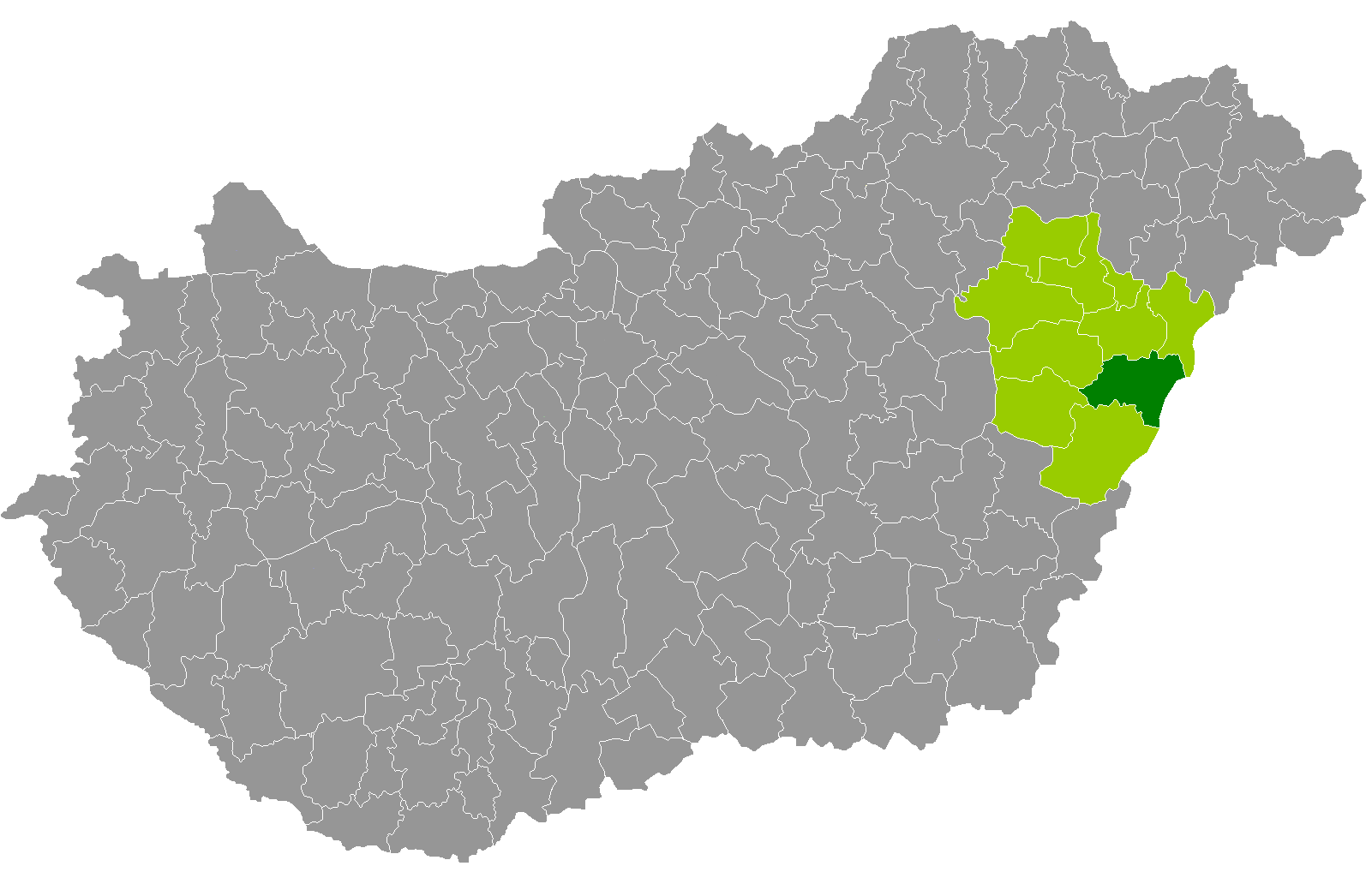 Location of Derecske District, Hajdú-Bihar, Hungary